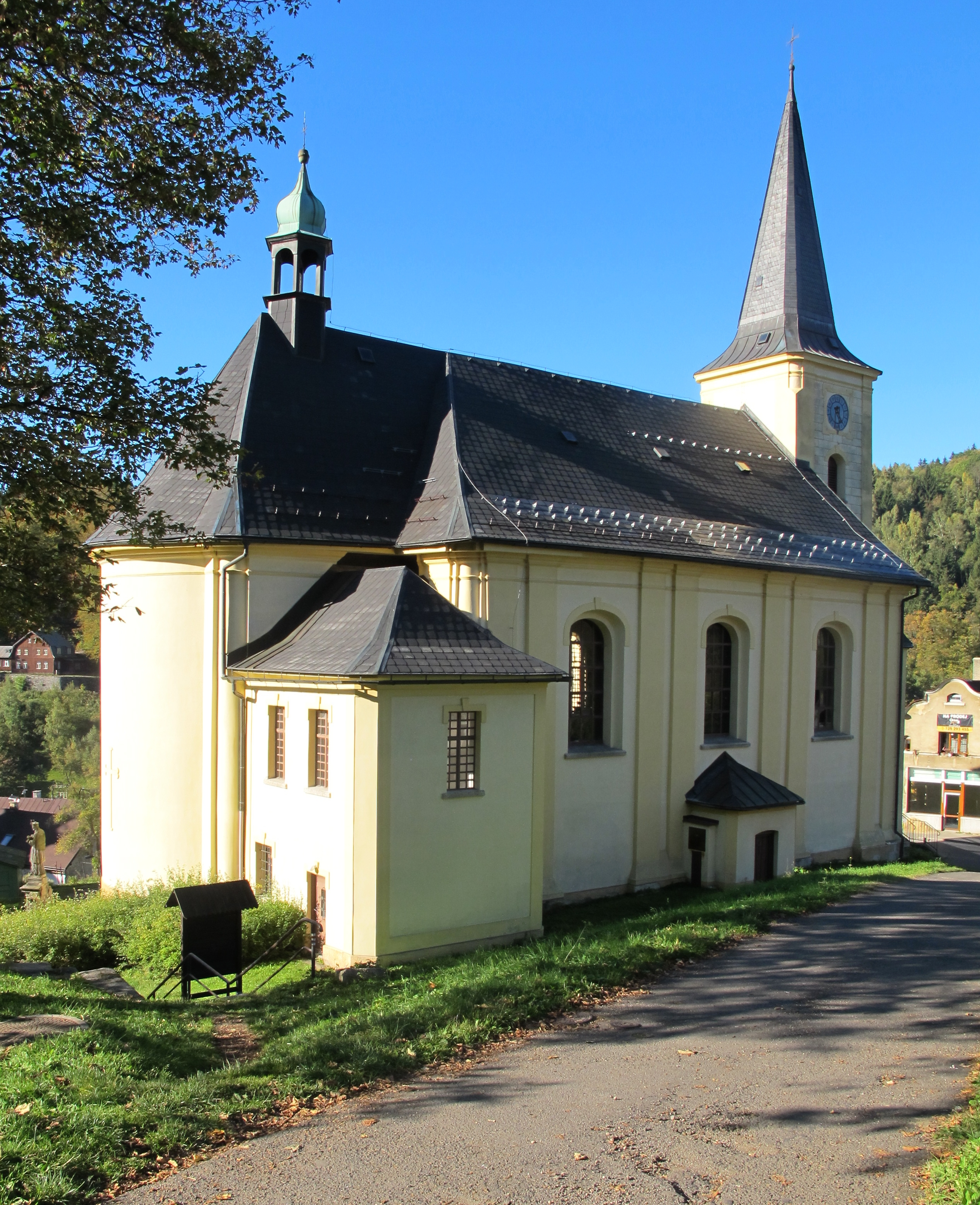 Church in Janov nad Nisou in Jablonec nad Nisou District, Czech Republic